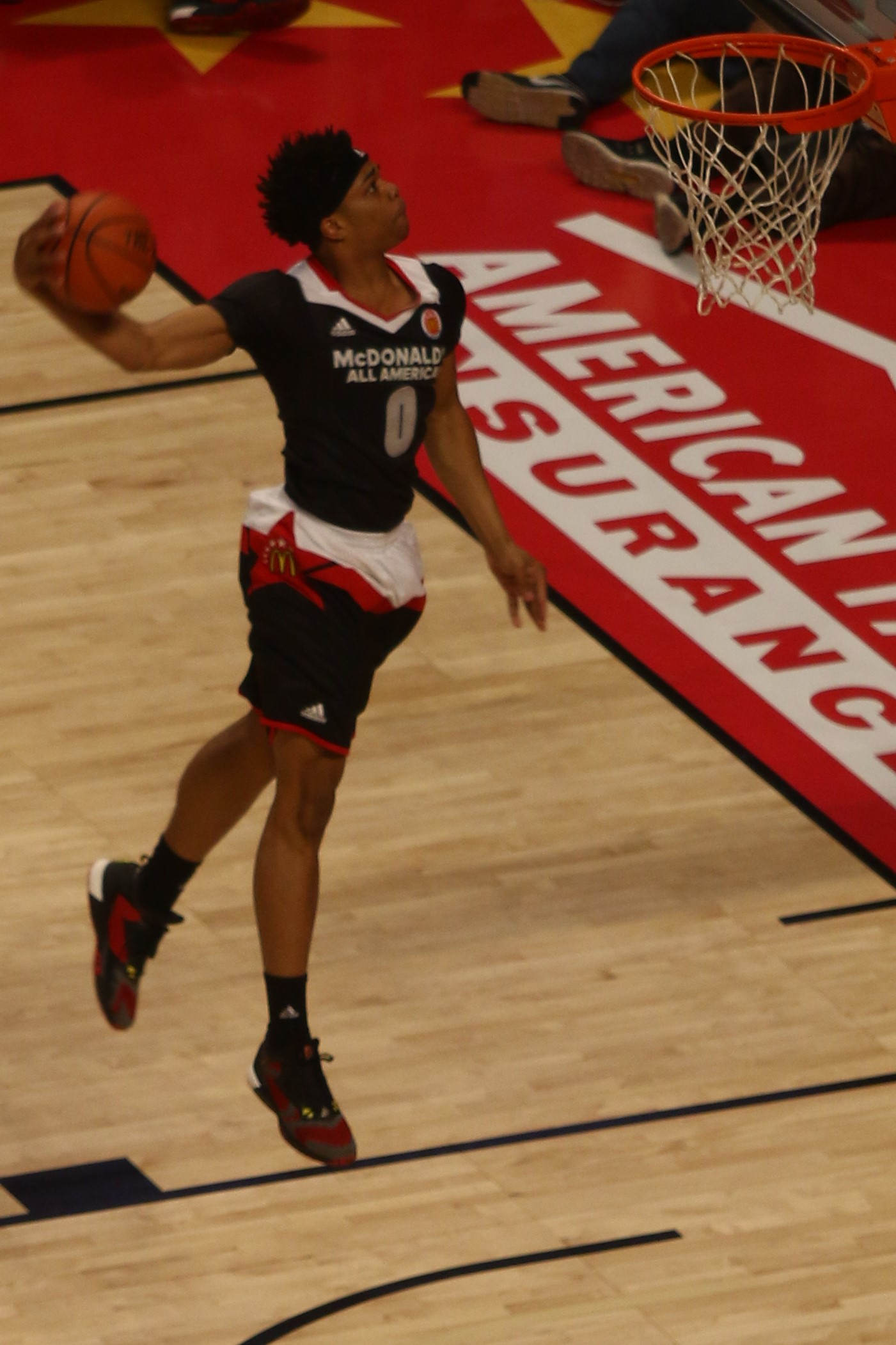 Miles Bridges at the w:2016 McDonald's All-American Boys Game